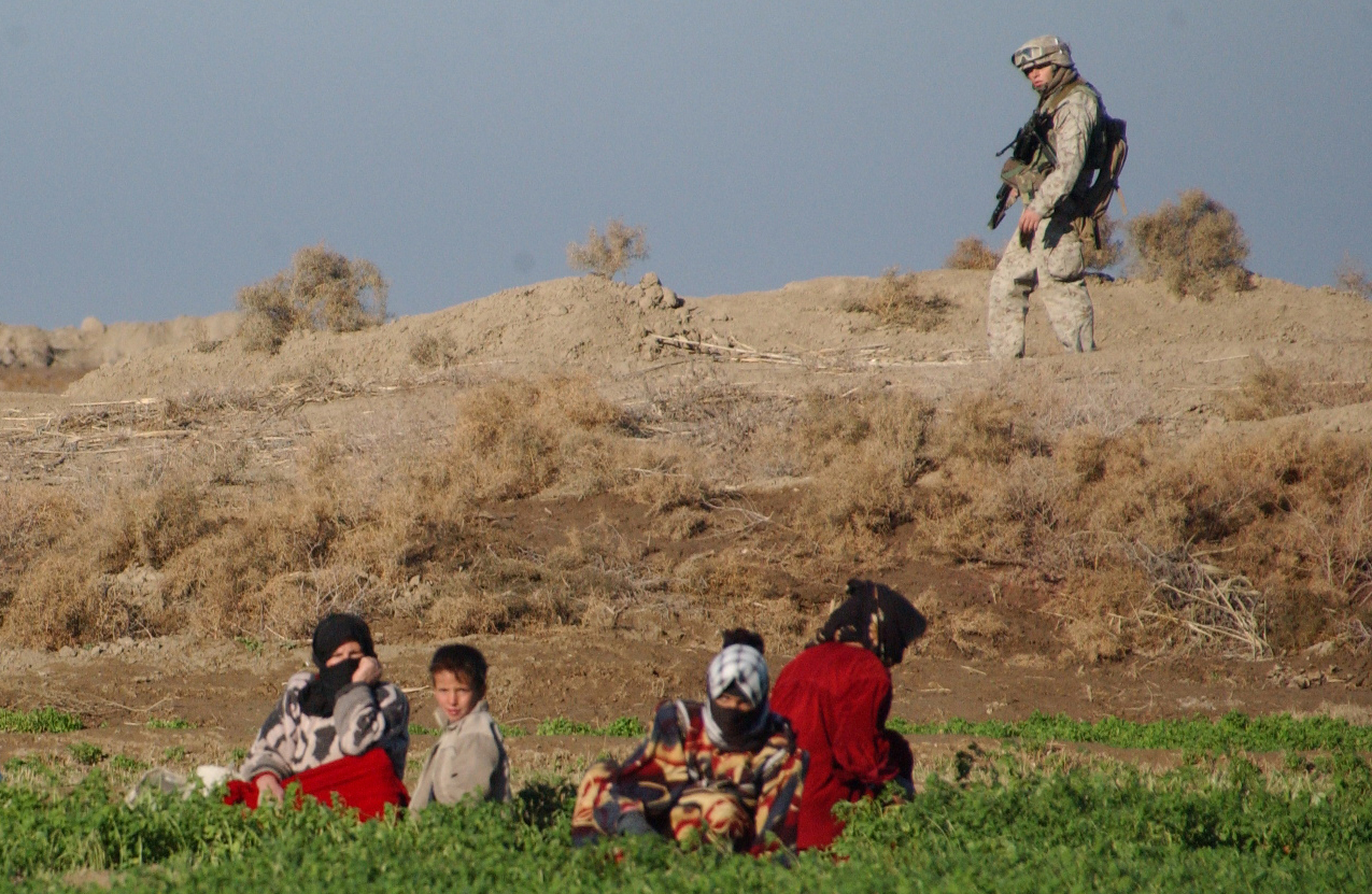 Atop a high, farm field dike, a Marine with 1st Platoon, Company B, 1st Battalion, 23rd Marine Regiment, marches past local Iraqi civilians during a security patrol around Ramadi, Iraq, Dec. 27. In the tradition of their Vietnam predecessors, today's Marine infantry in Iraq are reinforcing a good relationship between government and local civilians with patrols on the front lines of an insurgency prior to elections January 30.